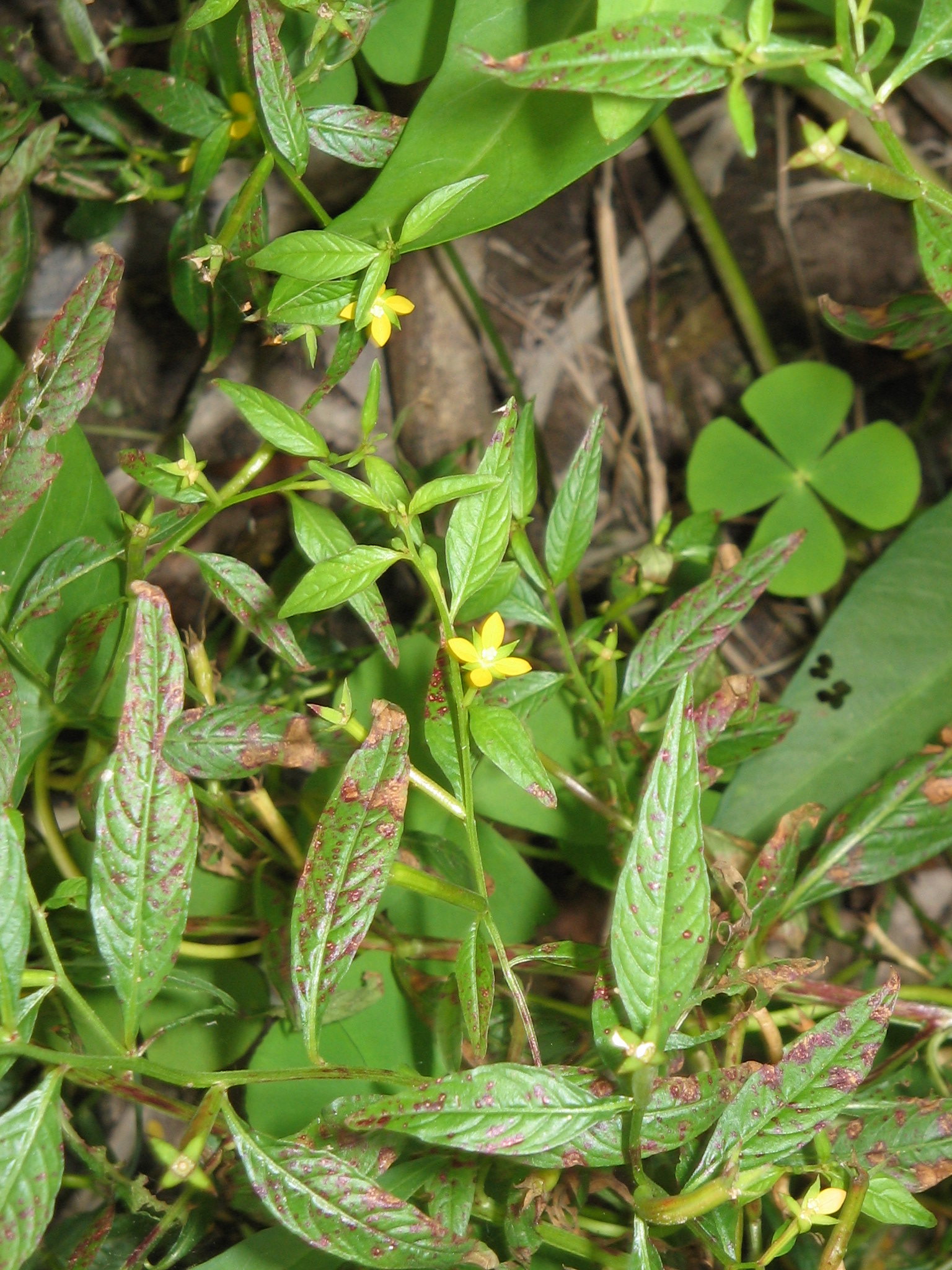 Ludwigia hyssopifolia